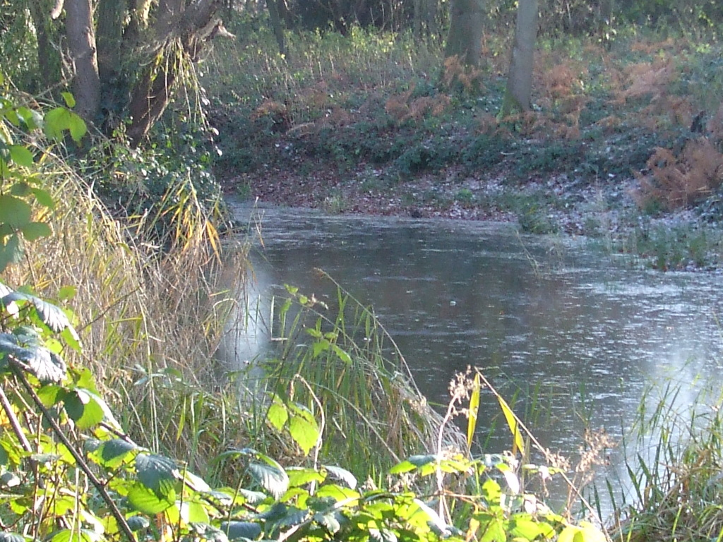 Dann's Pond, Richmond Park, 2 Dec 2012 Looking south. Dann's Pond is the source of Sudbrook that flows north towards Ham Gate, through Petersham and into the Thames near Petersham Meadows.